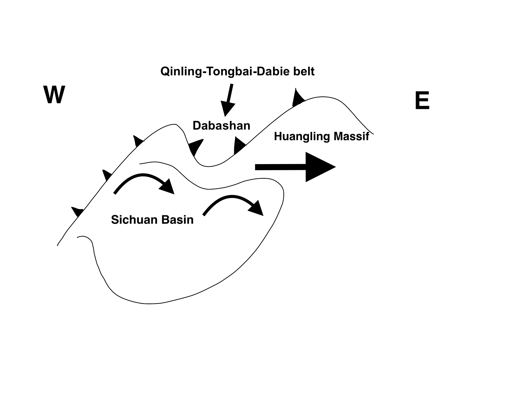 The southward thrust of Qinling-Tongbai-Dabie belt and the clockwise rotation of Sichuan Basin squeezed Huangling massif to the east.